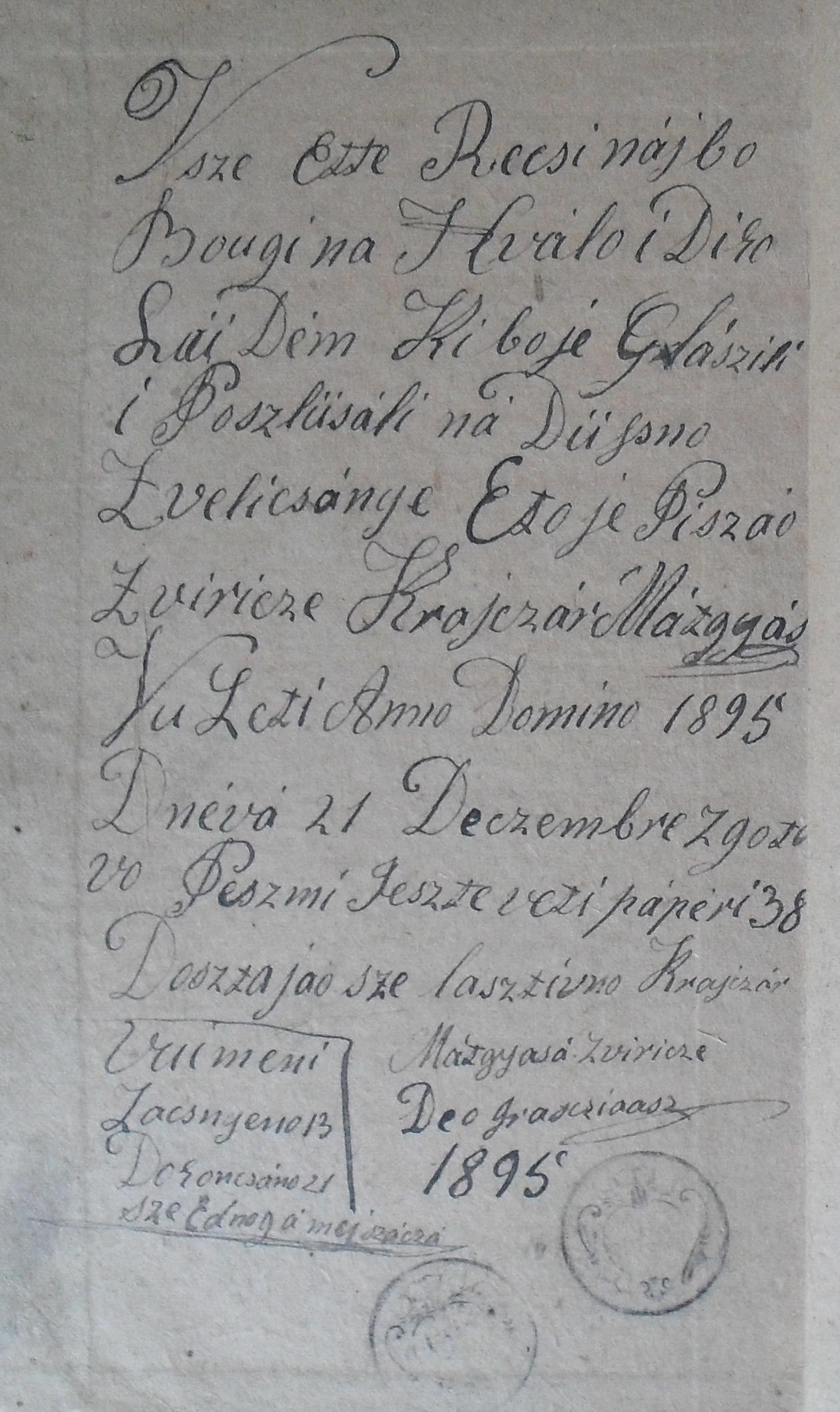 Mátyás Krajczár's Dead Hymnal in prekmurian language (prekmurščina) from Permise (Kétvölgy) in 1895. Today is the property of Sándor Merkli in Kétvölgy